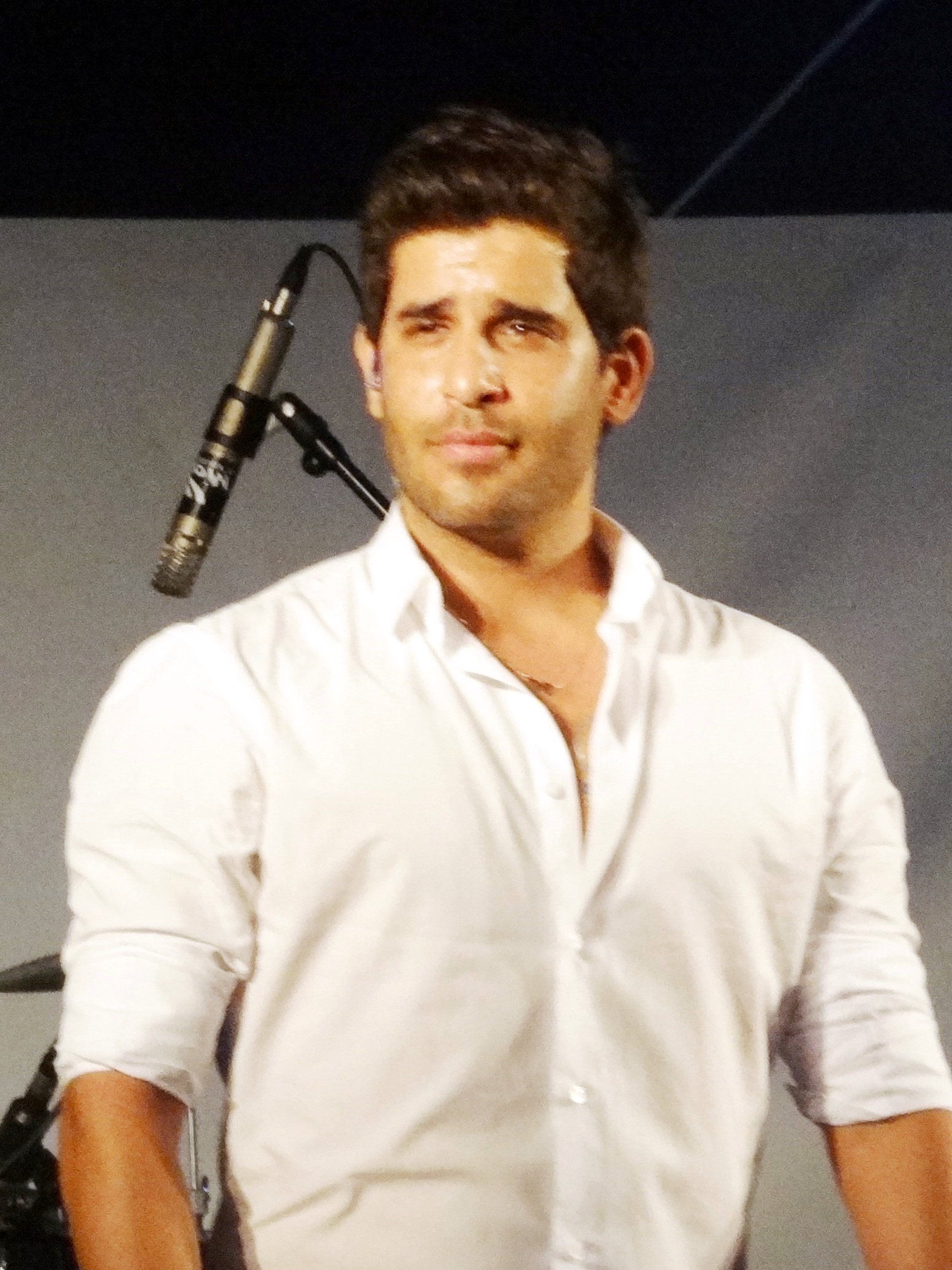 Israeli singer Pe'er Tasi on stage in Nesher.